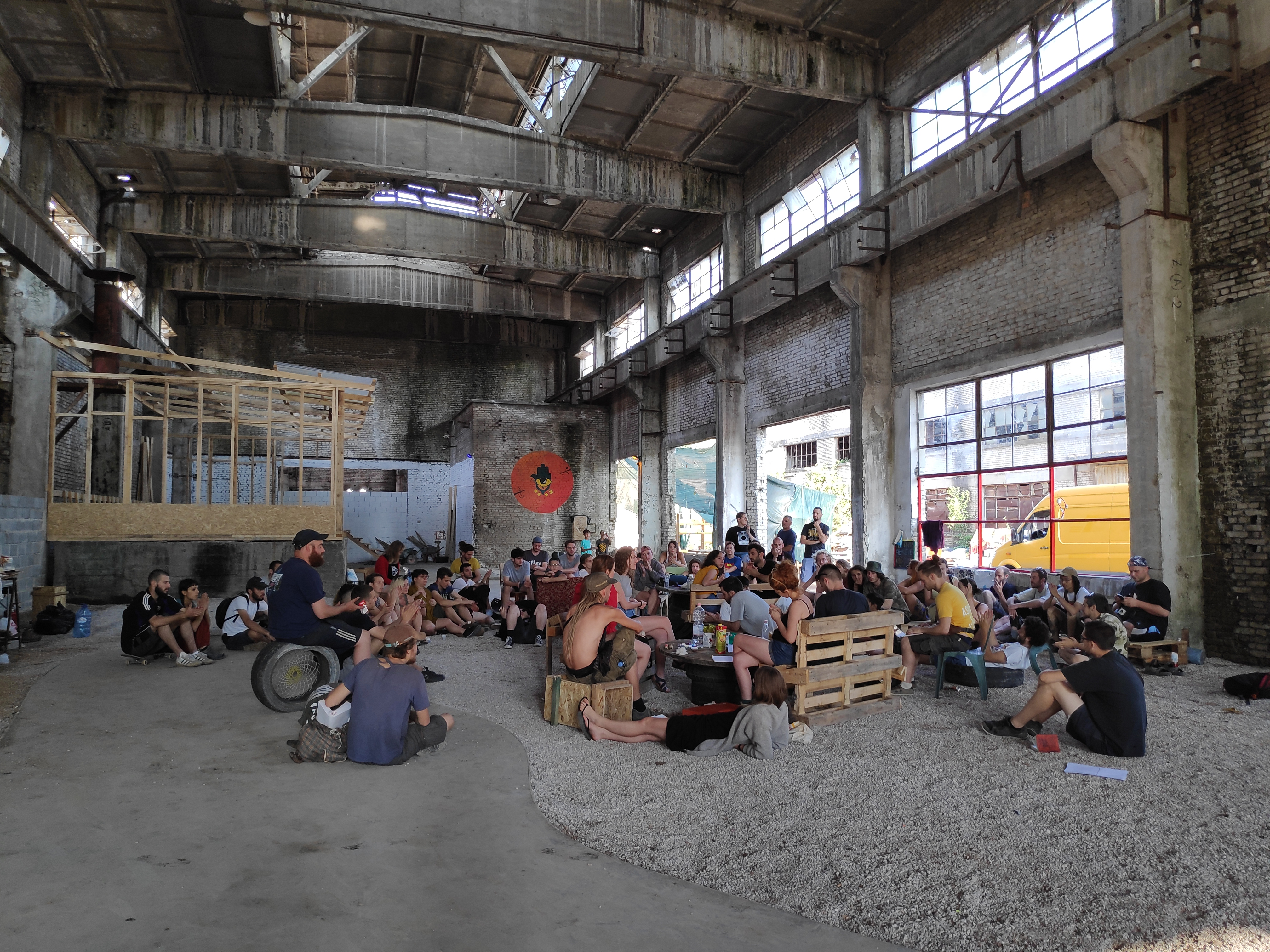 Internal of Hapësira Kulturore Uzina located in Tirana